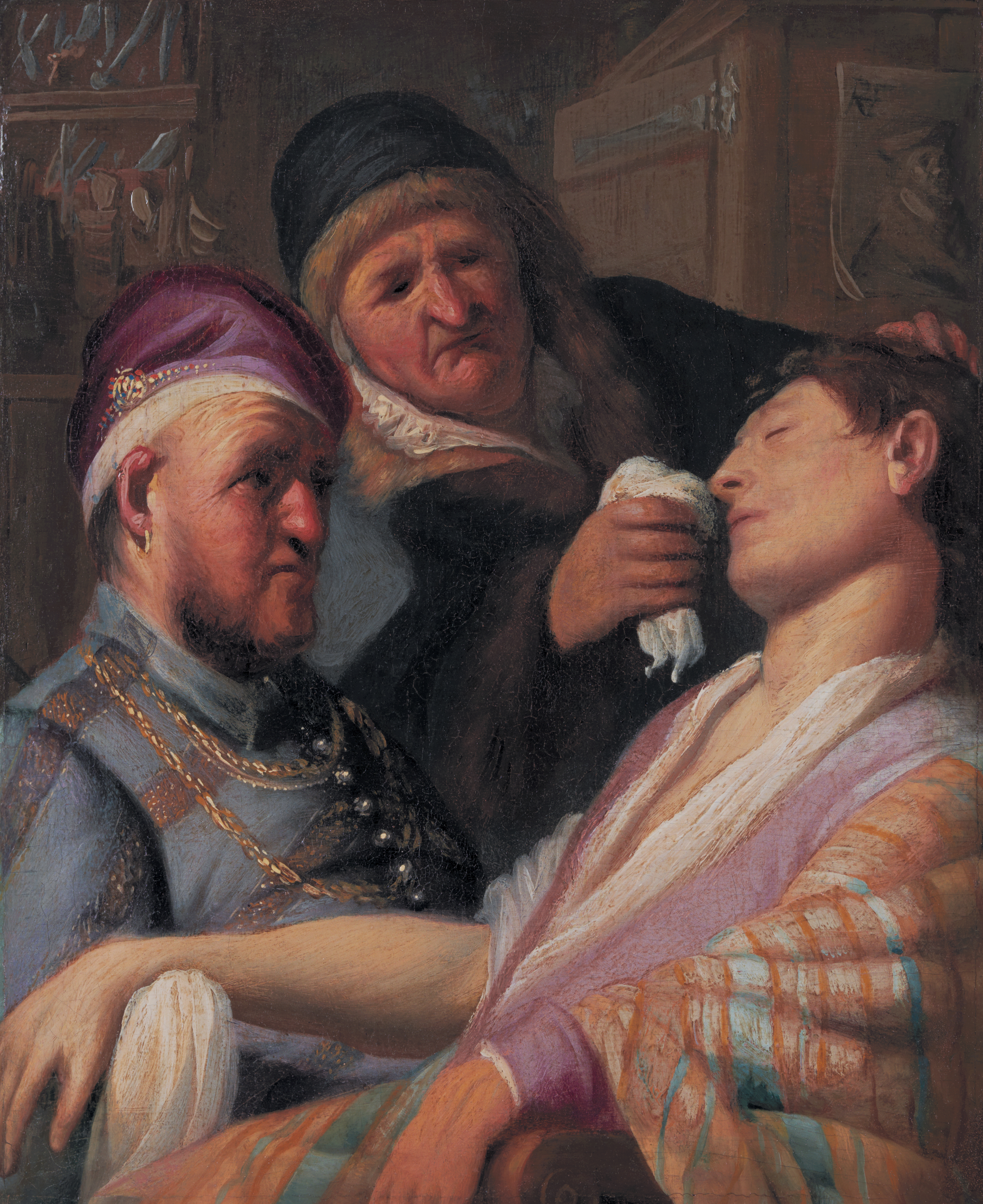 Smell oil on panel 31,7 x 25,4 cm circa 1624